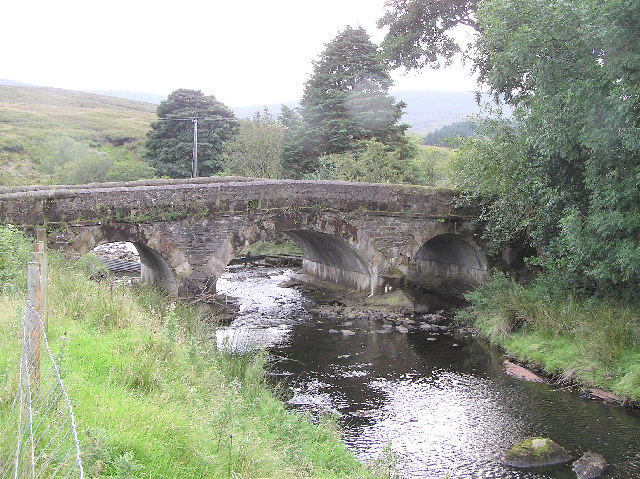 Goles bridge in the Glenelly Valley. A typical stone bridge in an isolated location